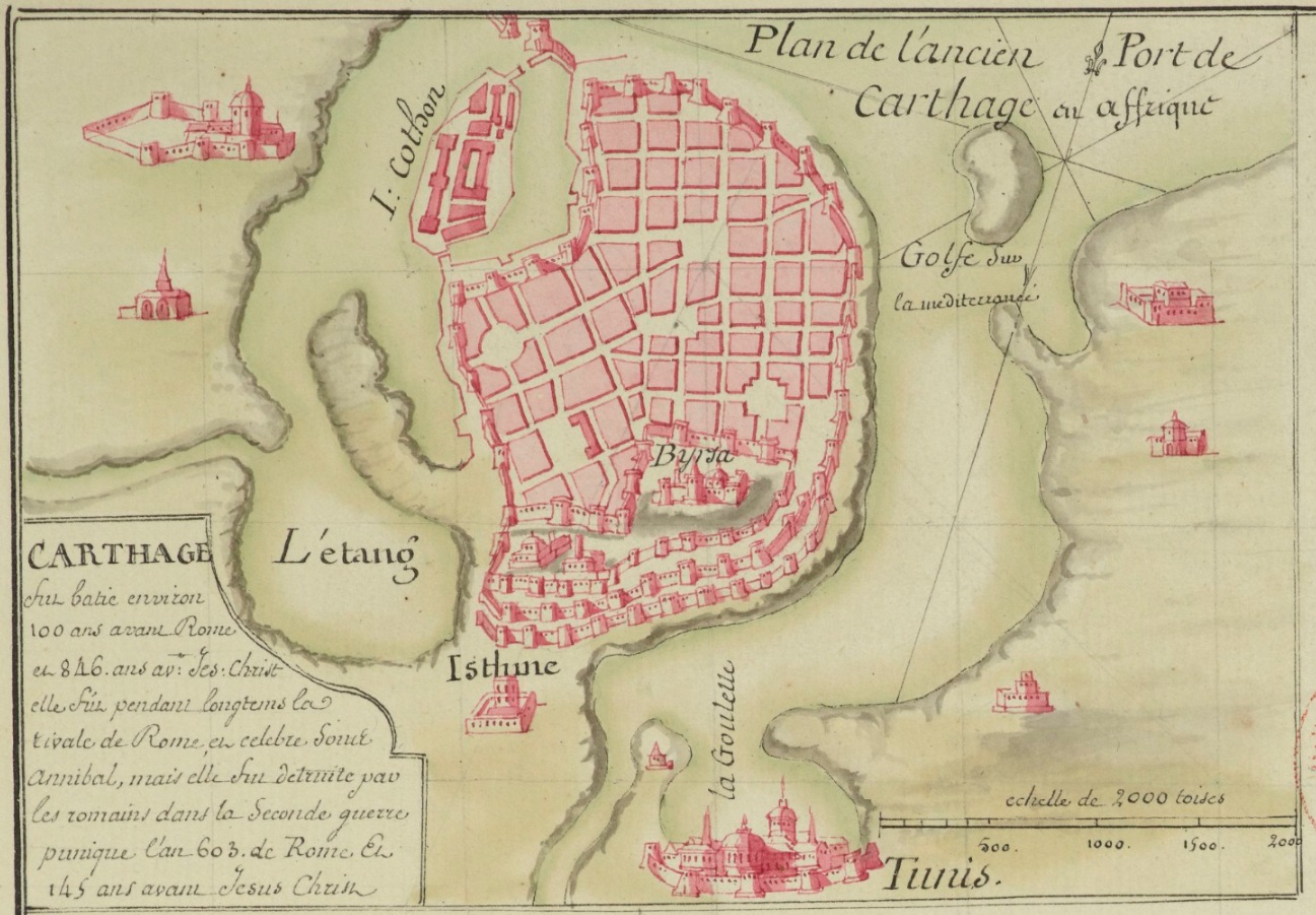 This picture shows the coty of Carthage circa 1770